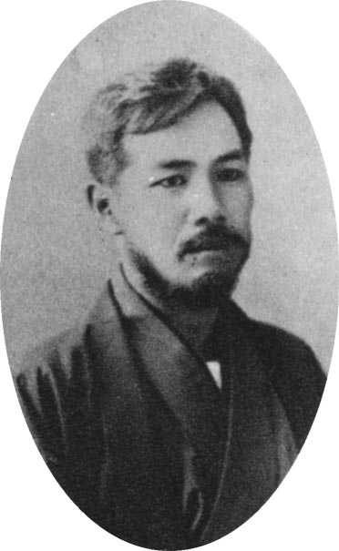 Noritaka Ōno.